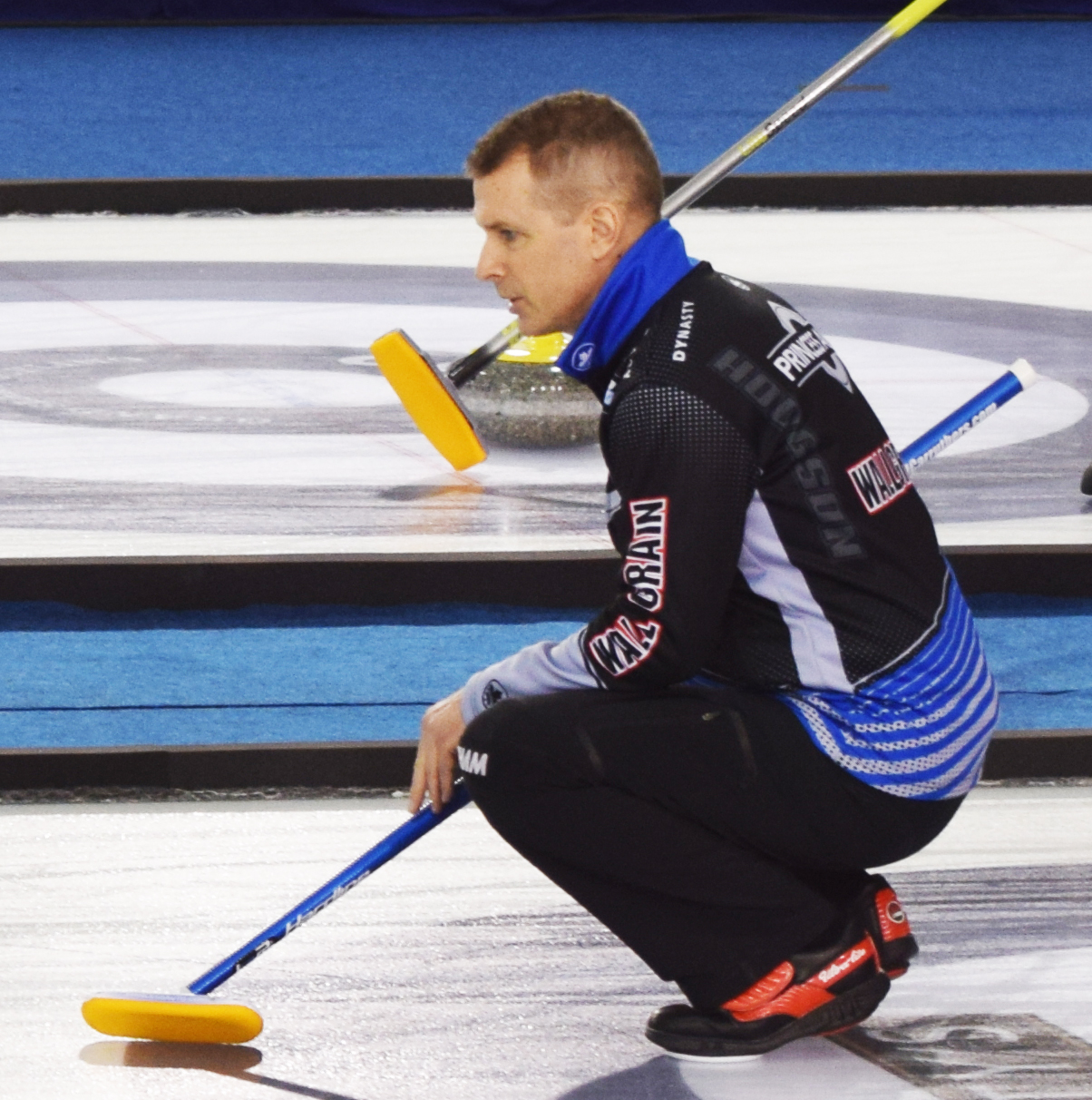 Jeff Stoughton at the 2018 Elite 10 Grand Slam of Curling event in Winnipeg, Manitoba.